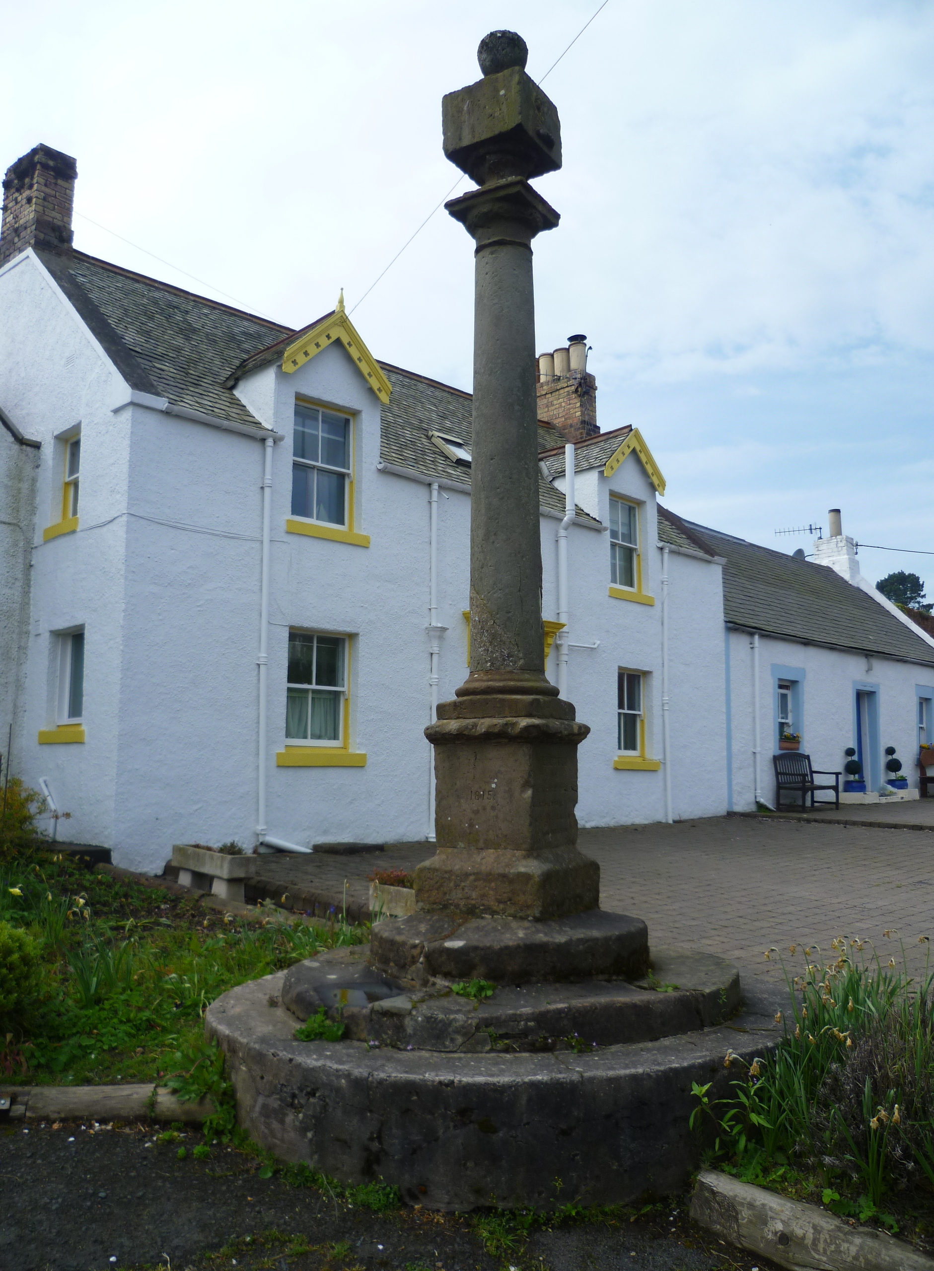 Mercat cross at Coldingham, Berwickshire The finial of the cross displays a thistle and a rose to commemorate the marriage of James IV to Margaret Tudor in 1503. Among other gifts, James bestowed revenues from the priory at Coldingham on his new queen.